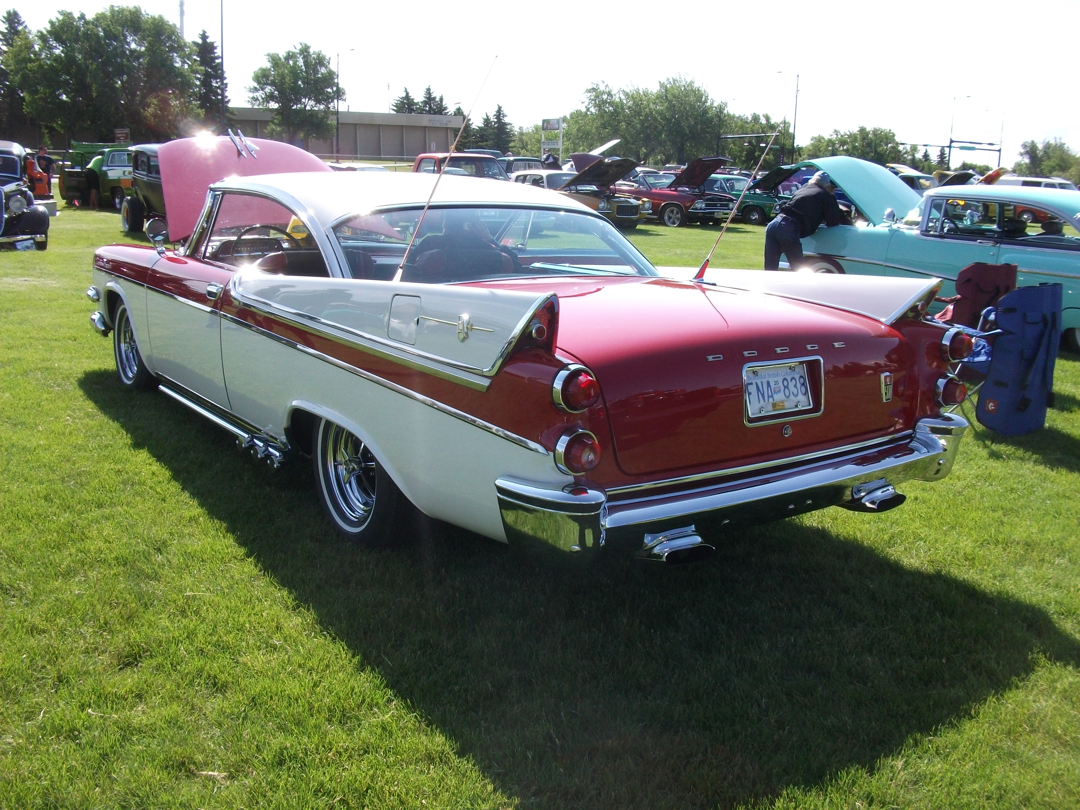 A very nice 1957 Dodge Custom Royal.